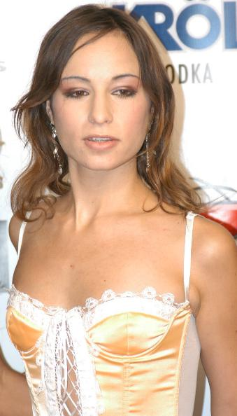 Amber Rayne, American pornographic actor and director, at Britney Rears 3 party, September 23 2006